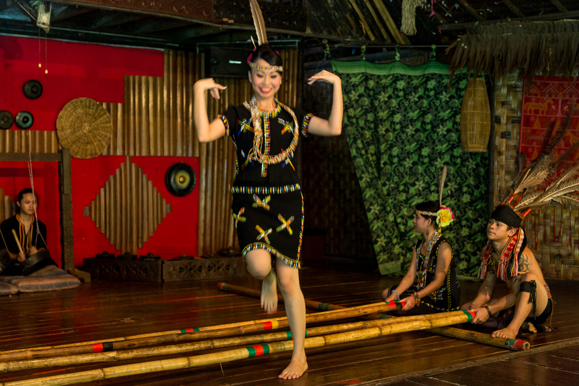 Kg. Kuai Kandazon, Penampang, Sabah: Members of Monsopiad Cultural Village during the performance of traditional danses